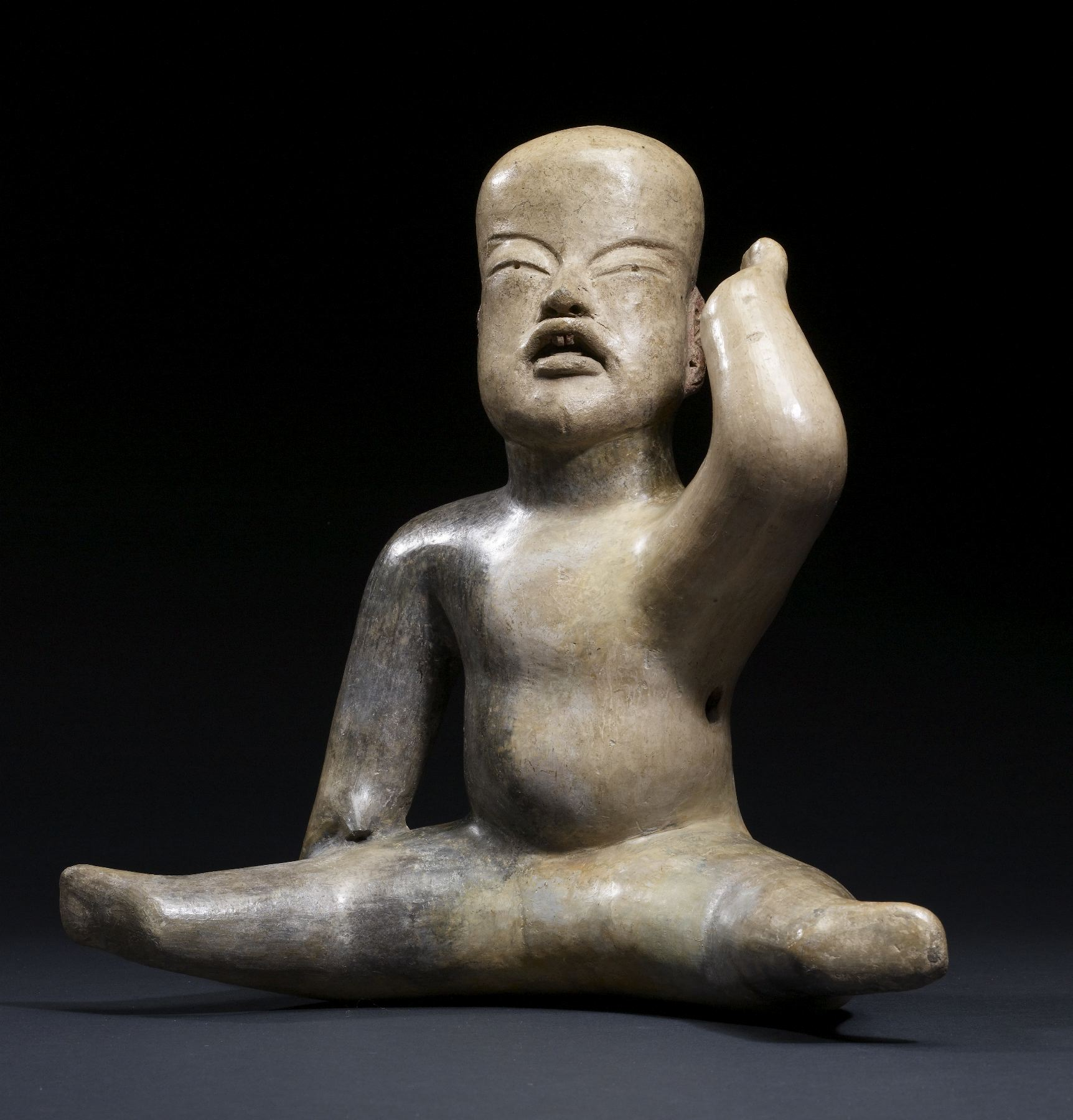 Hollow figures portraying a seated person resembling an infant are unique to Olmec art, most examples coming from funerary and ritual deposits from the central Mexican highland states of Morelos and Puebla. Most were intentionally broken prior to burial in ritual caches. Some examples might have functioned as surrogates for infant sacrifices or, when found in adult burials, as symbols of spiritual rebirth. Others have symbolic icons carved, incised, or painted on their heads or backs. The incised and painted emblem on the top and rear of this figure's head has been associated with the god of springtime and regeneration. The motif also resembles the "four-dots and- bar" icon, interpreted as a diagram of Olmec cosmology. Yet it is most similar to the iconographic complex that distinguishes the Olmec maize god, including this deity's essential cleft-head. Many of these figures are in a seated position with outstretched legs, gesturing with an upraised arm or similar measured body position. Depicted with a slightly open mouth and upraised eyes and lacking genitalia, these enigmatic figures seem to reject the adult, human condition and embrace the spirit form. The seated position and limited repertoire of gestures suggest disciplined meditative exercises that would assist the shaman in his/her spiritual journey. Nonsexed figures of adults in contorted positions are relatively common in Olmec art, from monumental versions carved in stone to diminutive examples modeled in clay. They may depict postures taken by shamans, whether actual or metaphorical, for the rigors of spiritual transformation. The practice survives today among Huichol shamanic celebrants in northern Mexico.